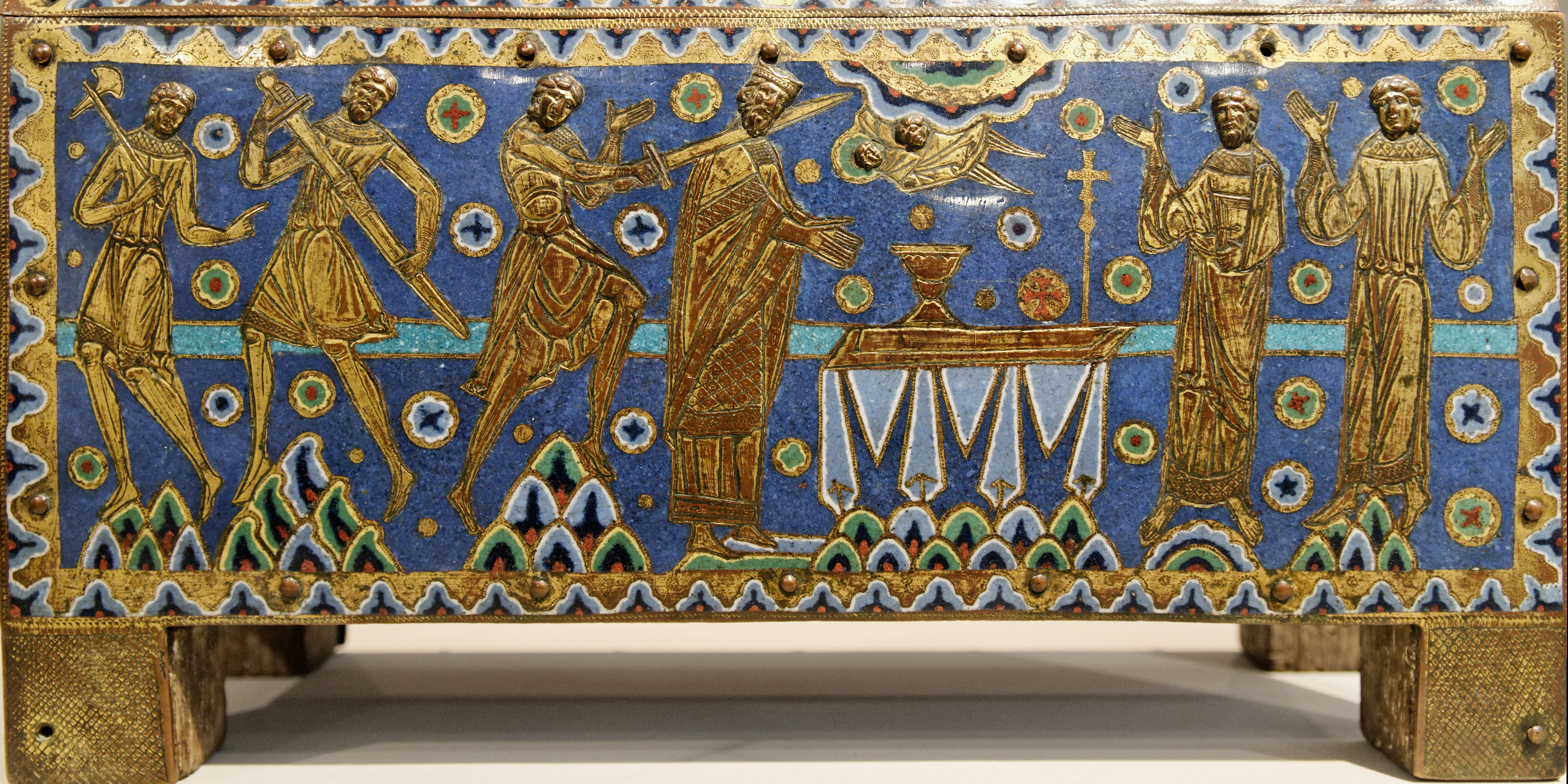 The martyrdom of St Thomas Becket, detail from a reliquary casket, Limoges enamel.